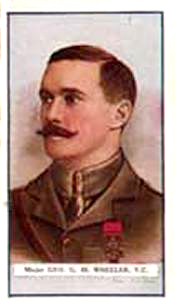 Photo of Victoria Cross recipient George Godfrey Massy Wheeler, migrated from the Victoria Cross Reference site with permission. Photo submitted by Franklyncards.